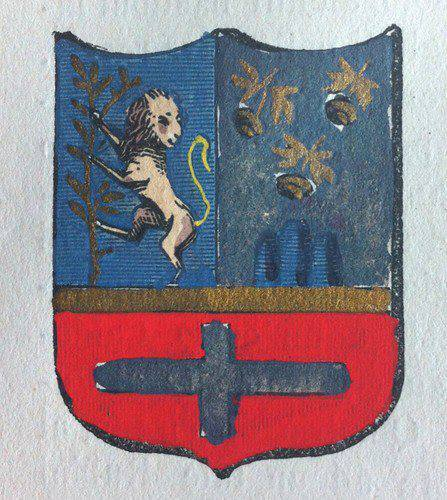 Coat of arms of Coldirodi, constituent village of the city of Sanremo in northwestern Italy.